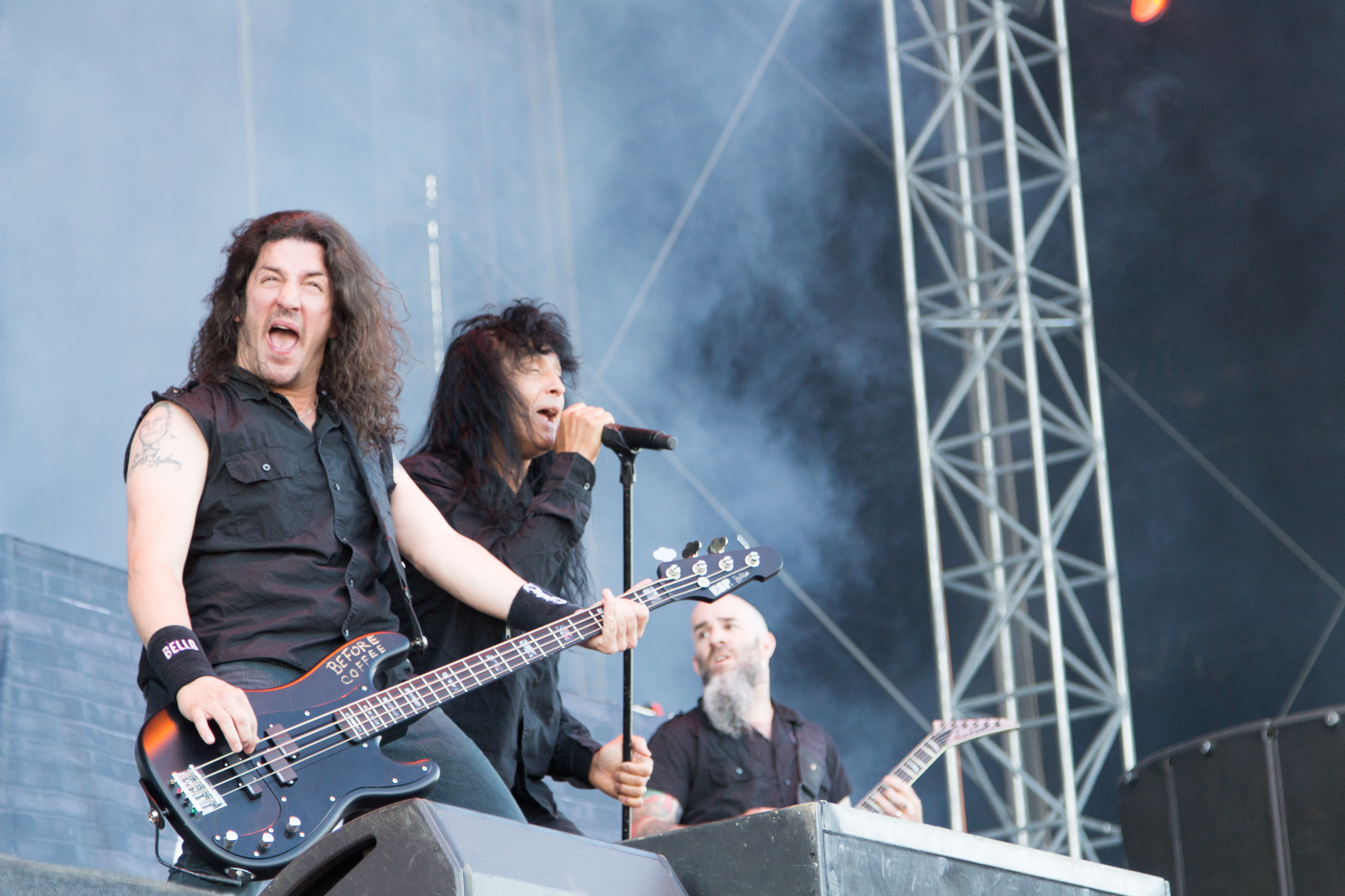 Frank Joseph Bello and Joey Belladonna from Anthrax at Nova Rock 2014